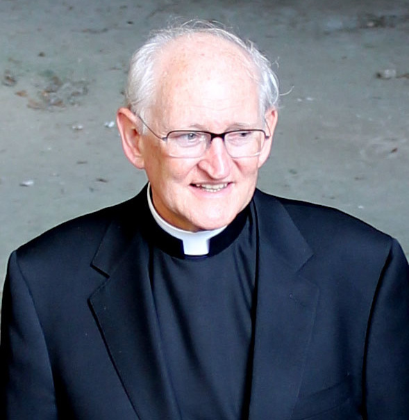 James Michael Cardinal Harvey, former Prefect of the Papal Household and current Cardinal-Archpriest of the Basilica of Saint Paul Outside the Walls.